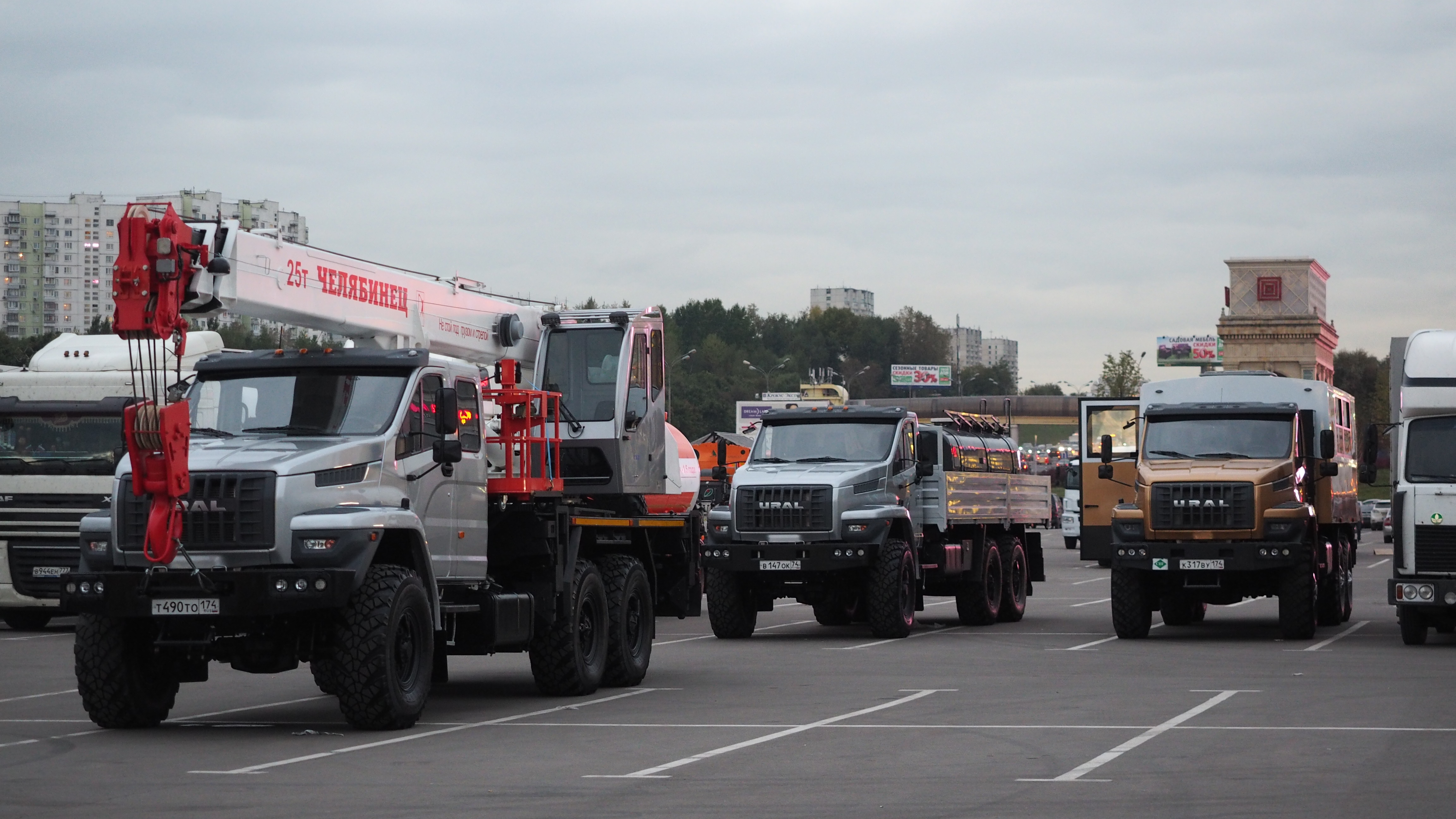 Ural Next range